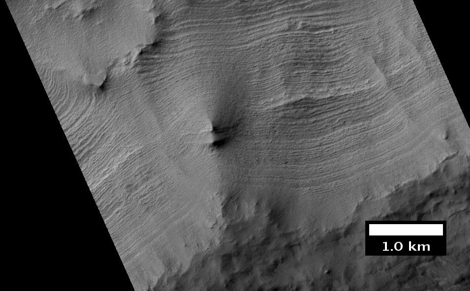 Close-up of McMurdo Crater Layers, as seen by hirise. Location is 84.5 S and 0.9 E.